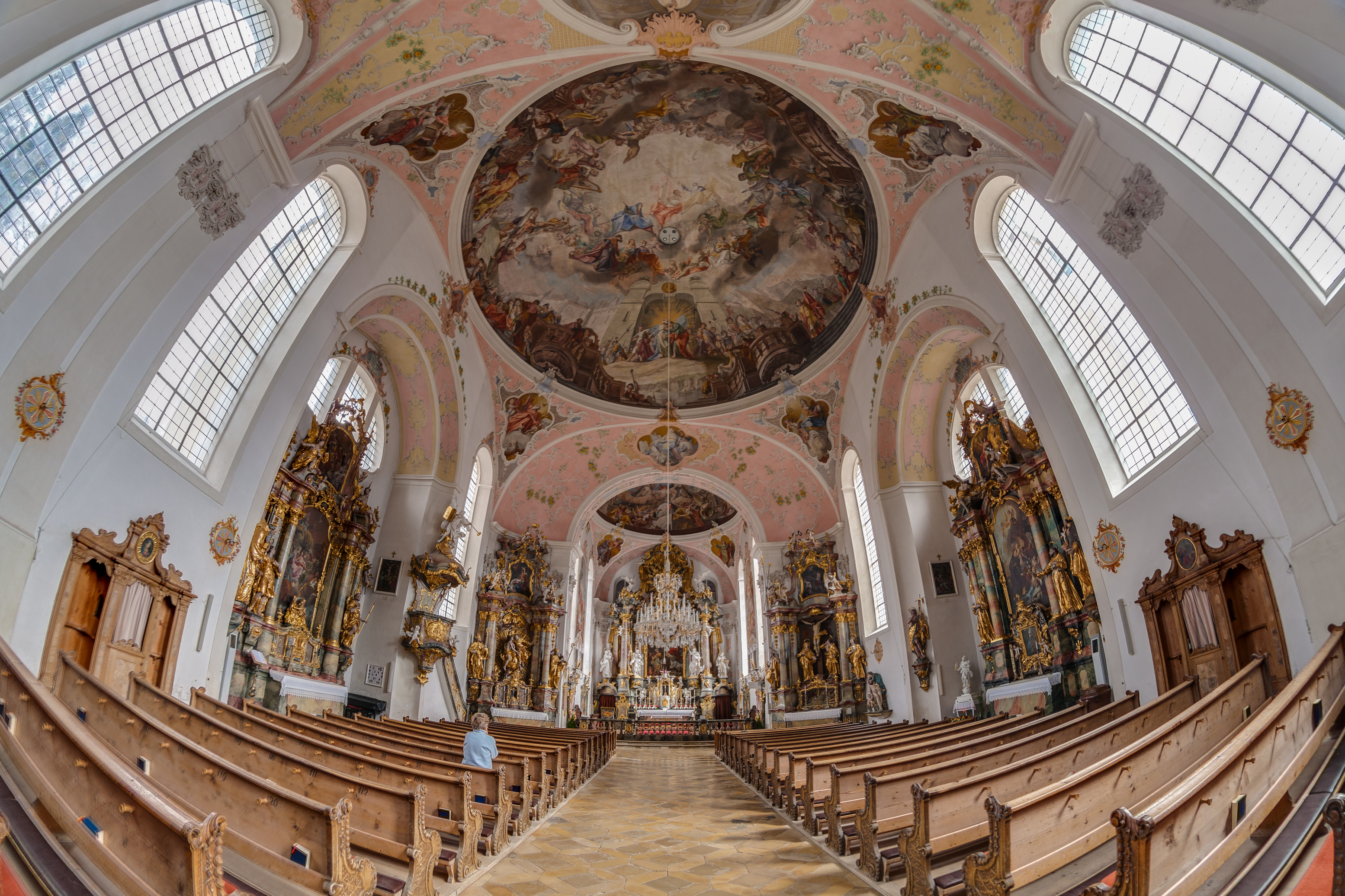 St. Peter and Paul church, Oberammergau, Bavaria, Germany